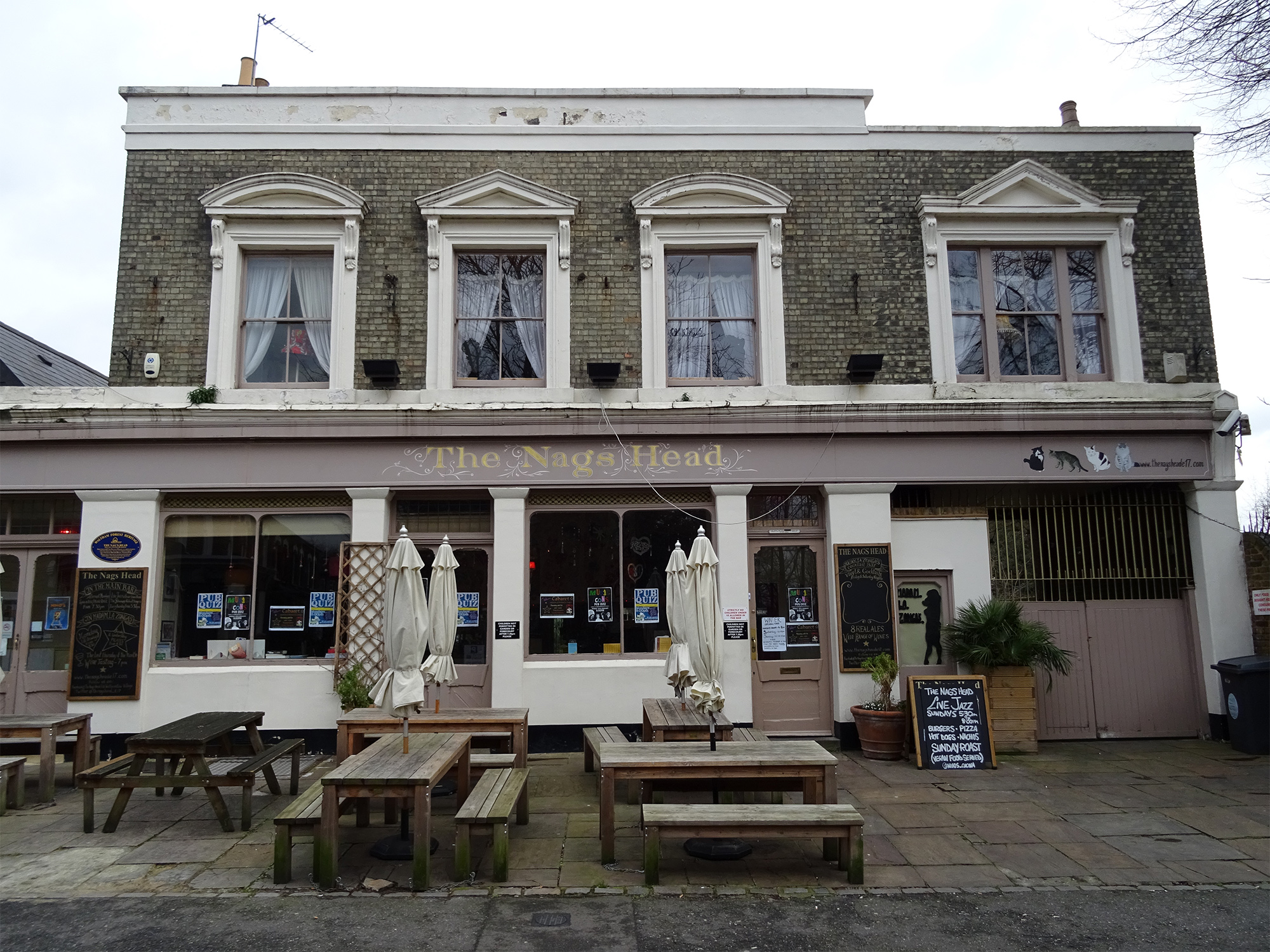 The Nag's Head public house, 9 Orford Road Walthamstow Village London E17 9LP